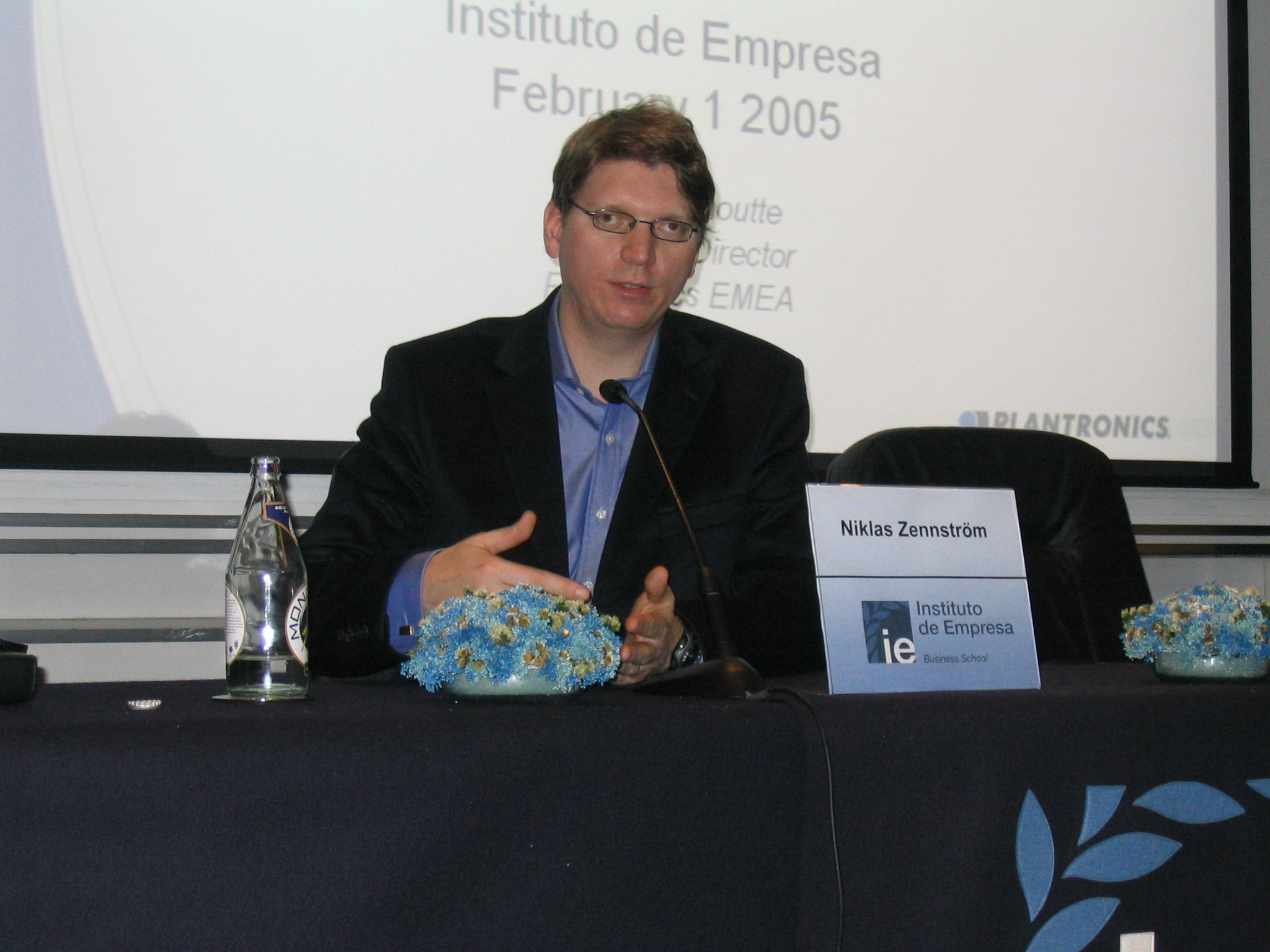 Niklas Zennström, founder of KaZaA and Skype, at Instituto de Empresa (Feb. 1, 2005)